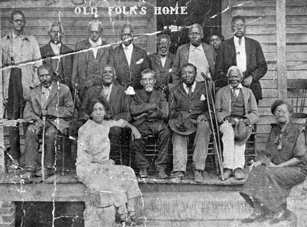 Eartha M. M. White was a humanitarian, businesswoman and philanthropist from Jacksonville. She created educational opportunities and provided relief to African-Americans in northeastern Florida. White helped found several organizations and institutions, including the Clara White Mission, Mercy Hospital and the Boy's Improvement Club. She was designated as a Great Floridian by the Florida Department of State in the year 2000. (In this picture, Eartha White is seated on the left side of the steps. It is possible her mother is on the right?)